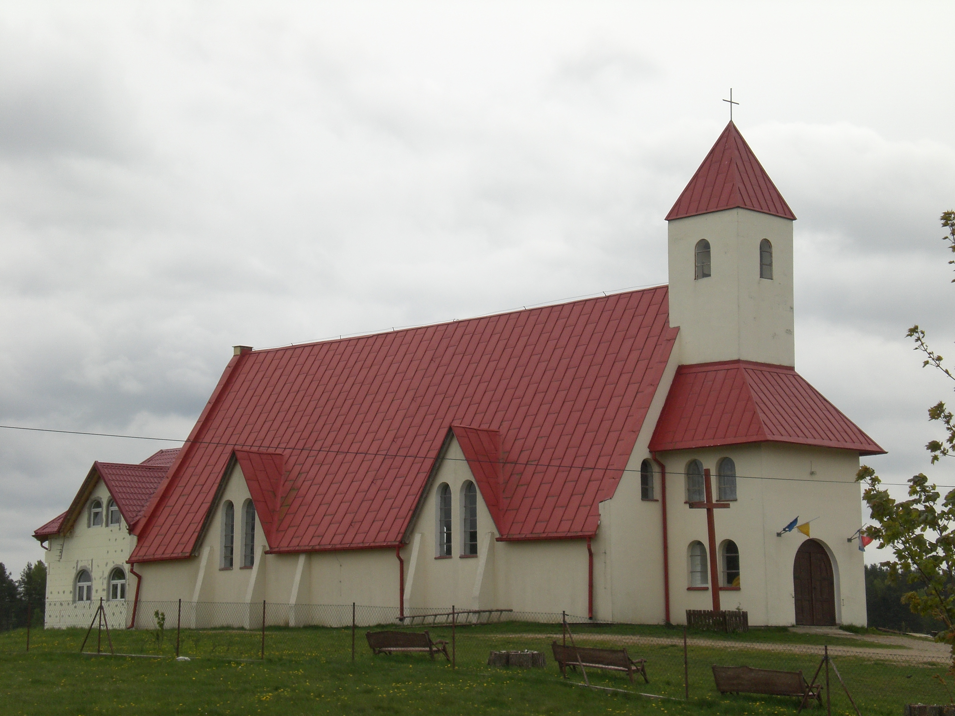 Nowa Wieś Przywidzka - church